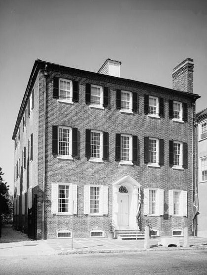 Thomas Heyward, Jr. House, 87 Church Street, Charleston, Charleston County, SC (Cropped)